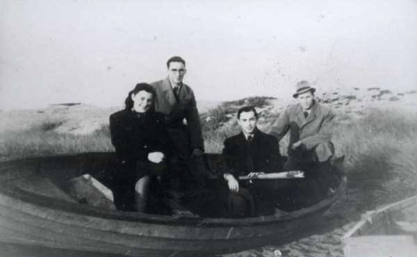 Danish jews arrive in Sweden October 6, 1943 after having been helped out of the country by the Danish resistance. Notice that one of the oars have broken. Luckily it happened closed to the Swedish shore!